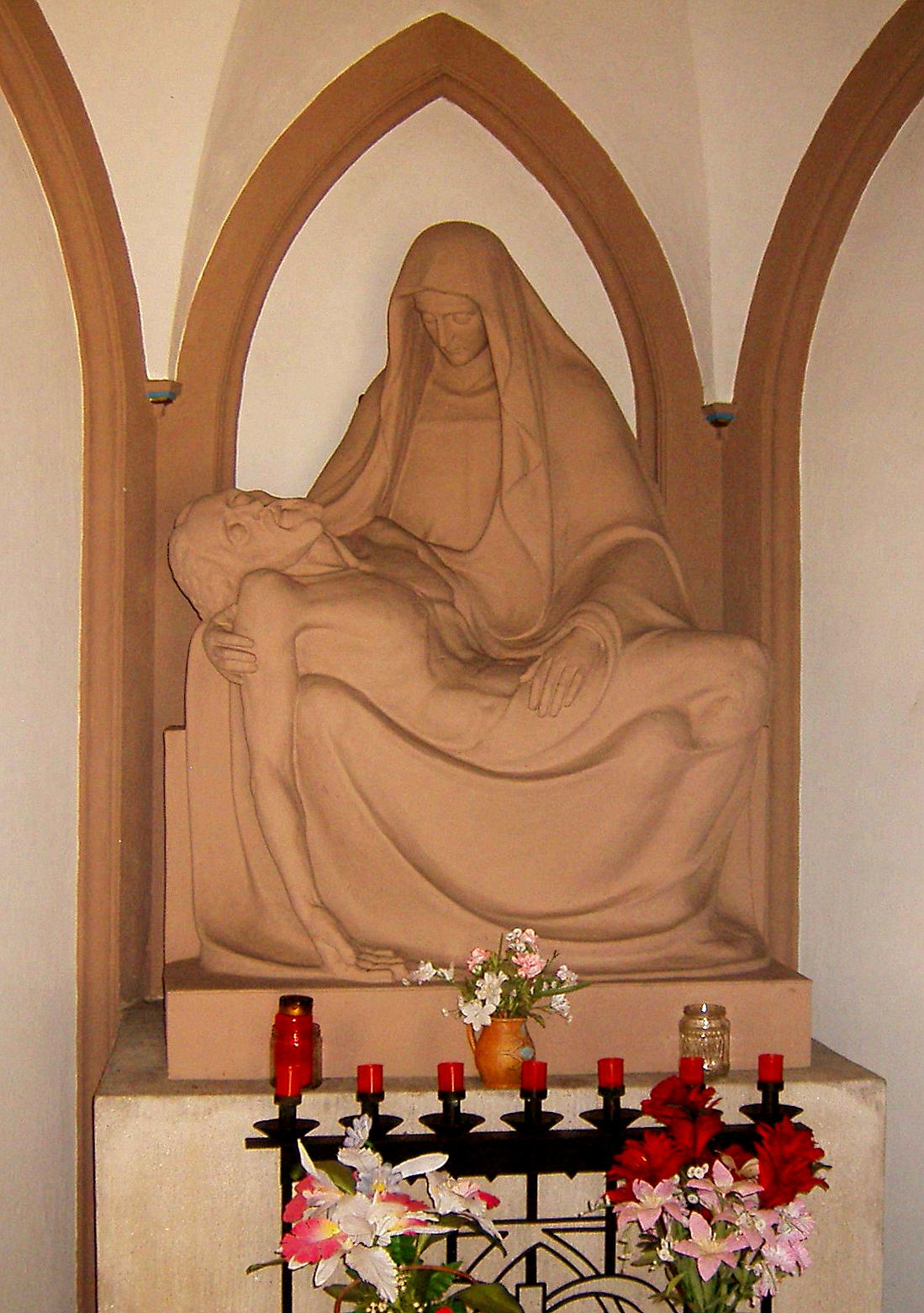 Pietà in cemetery chapel of monastery St. Arnold in district of Steinfurt, Germany